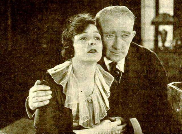 Still from the American film The Probation Wife (1919) with Norma Talmadge and Alec B. Francis, on page 1023 of the February 22, 1919 Moving Picture World.